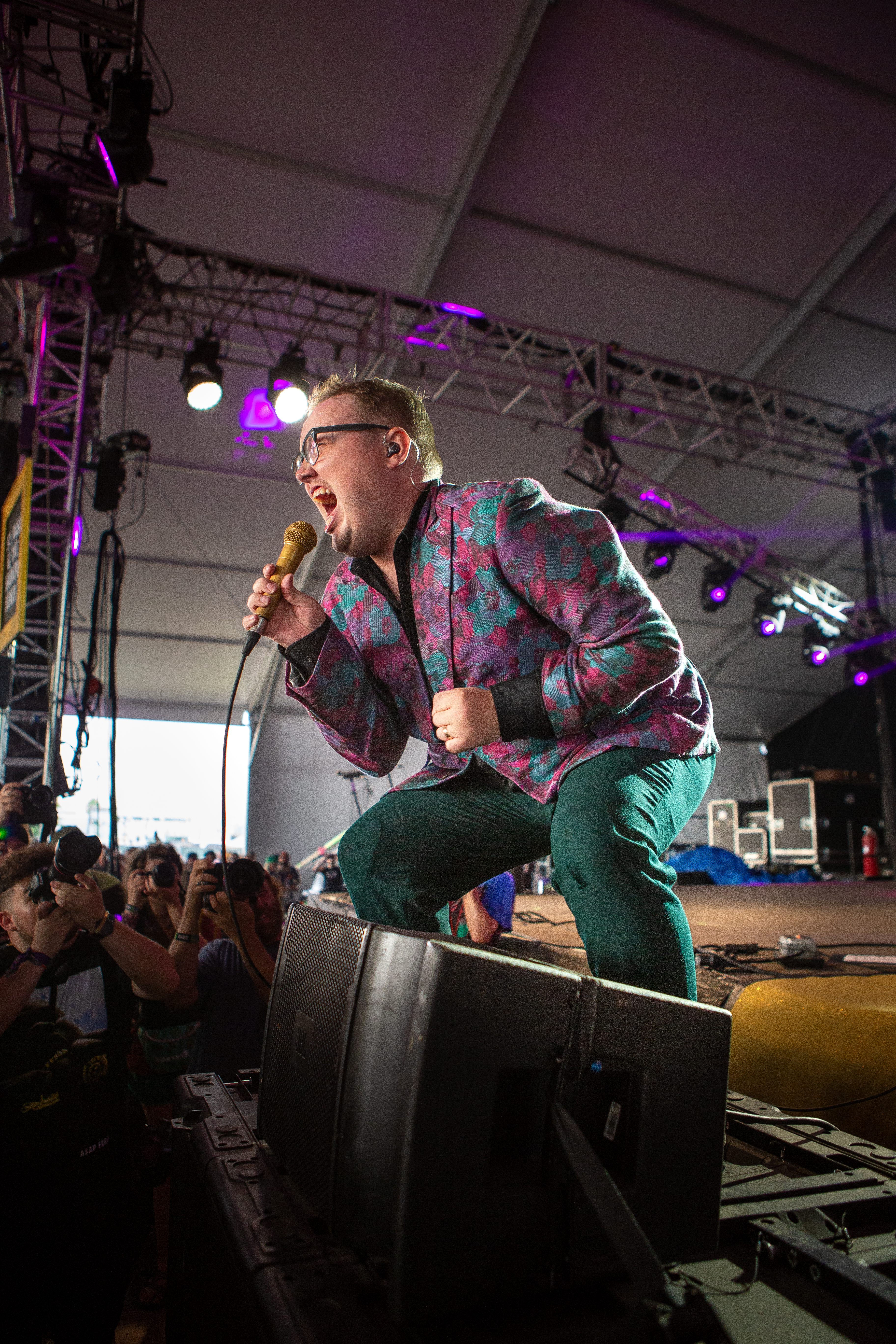 St. Paul & the Broken Bones performs at the 2018 Bonnaroo Music & Arts Festival